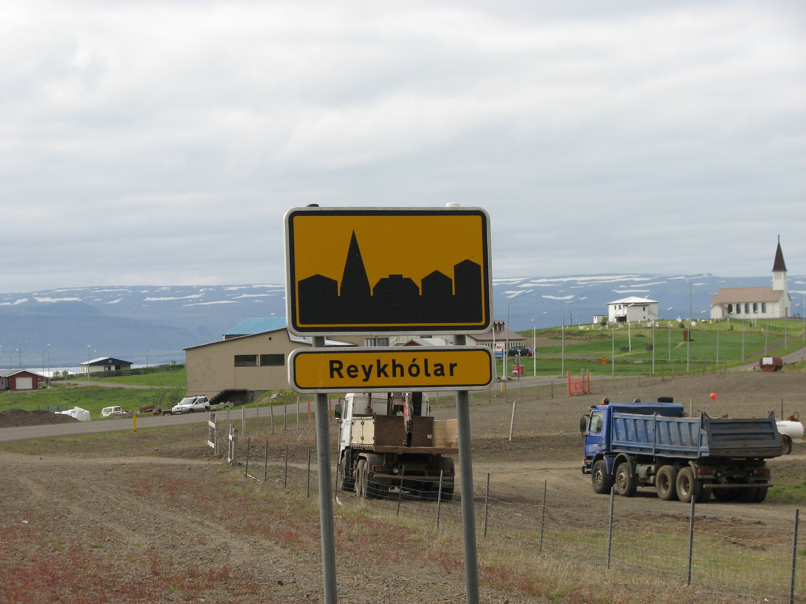 Reykholar, June 2008.